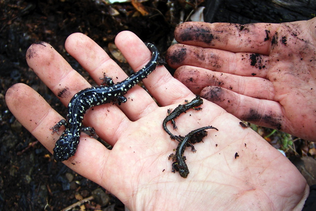 Aneides flavipunctatus with young, from northern California.